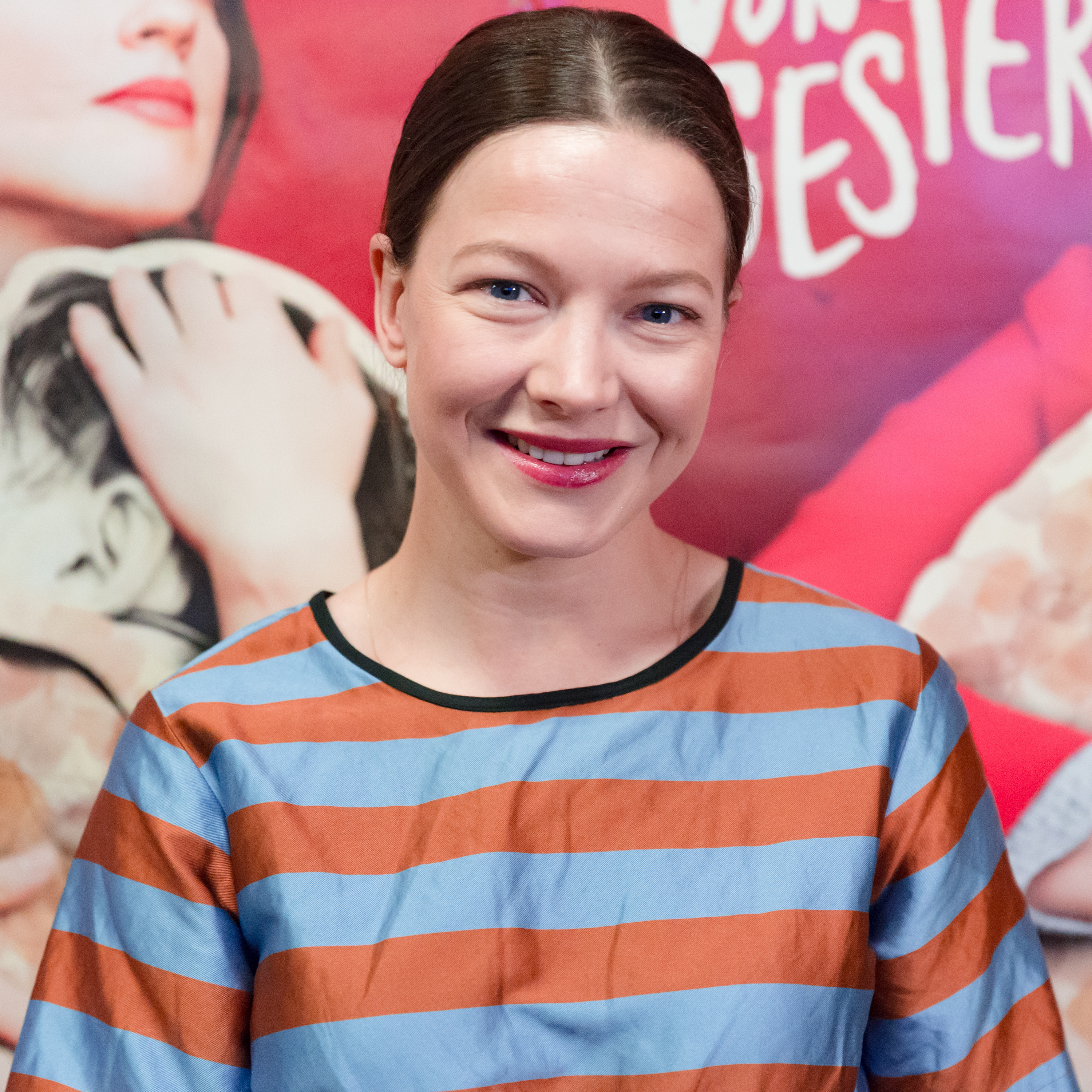 Hannah Herzsprung at the Austrian premiere of Die Blumen von gestern at Gartenbaukino, Vienna, Austria.